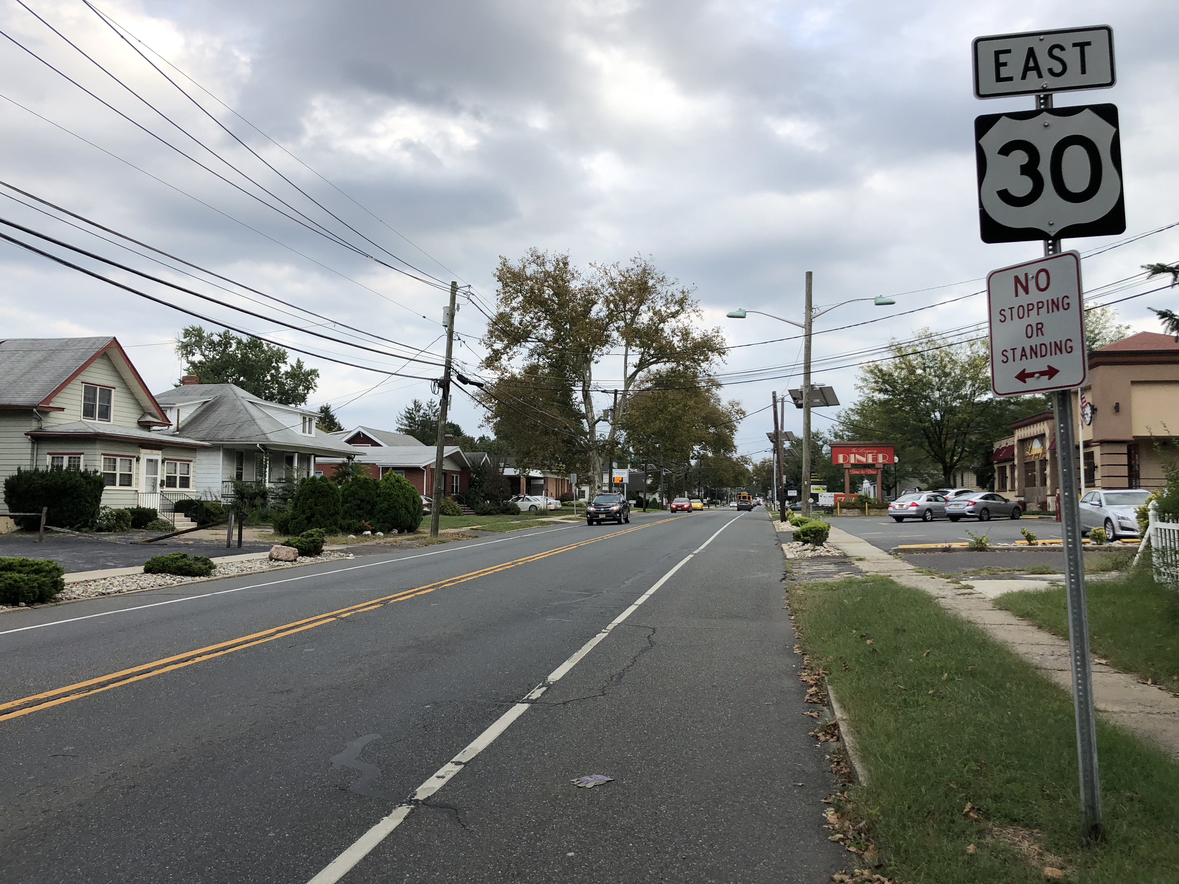 View east along U.S. Route 30 (White Horse Pike) at Dowling Avenue in Audubon, Camden County, New Jersey